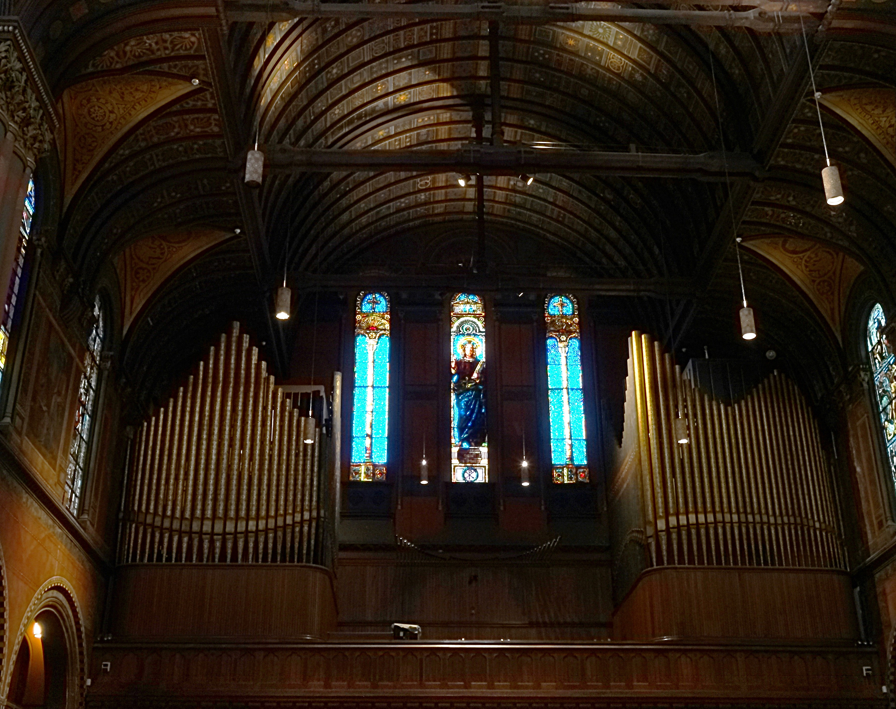 Gallery organ by Hilborne L. Roosevelt. 1876 originally put up in the altar room, then moved to the gallery. 1924 by Ernest M. Skinner completely reworked. 1962 again renewed and modified by Jason McKown. Horizontal pipes under the western gallery windows by Jack Steinkampf 1987.